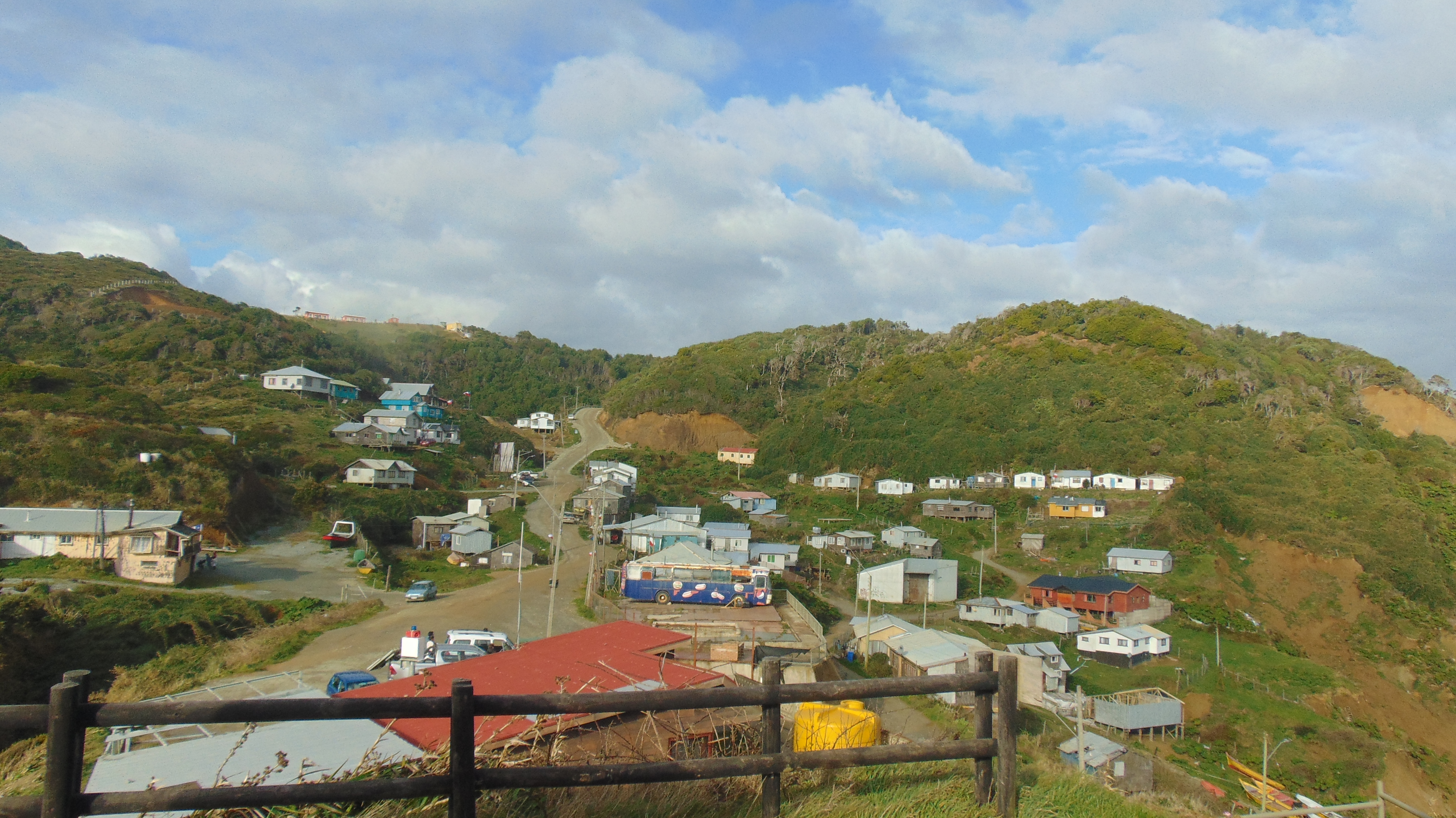 Punta Estaquilla Cove, September 2018